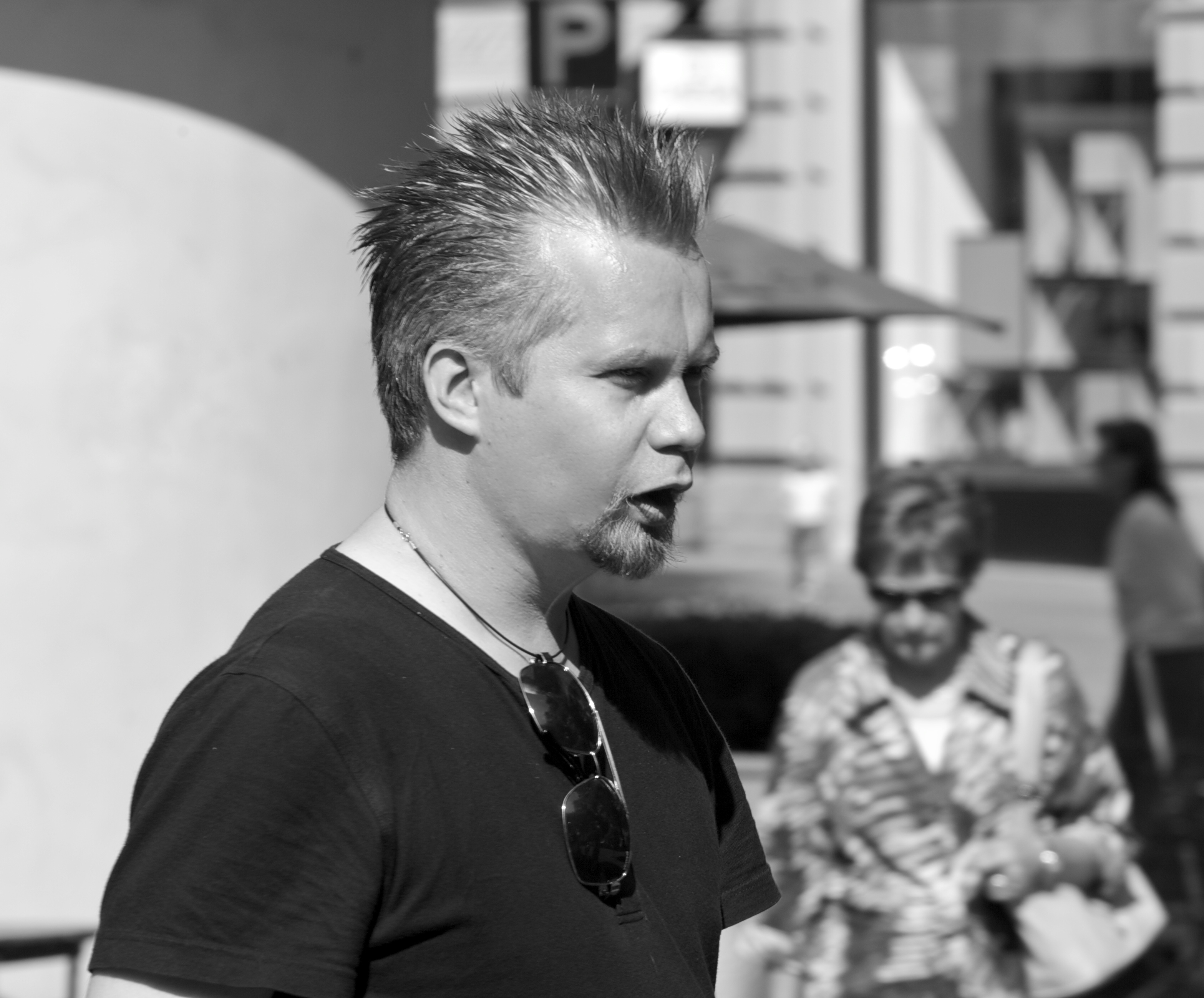 Composer Pasi Lyytikäinen at the rehearsal of his opera performance 'Opera in everyday life II', June 2013, Esplanad Park, Helsinki